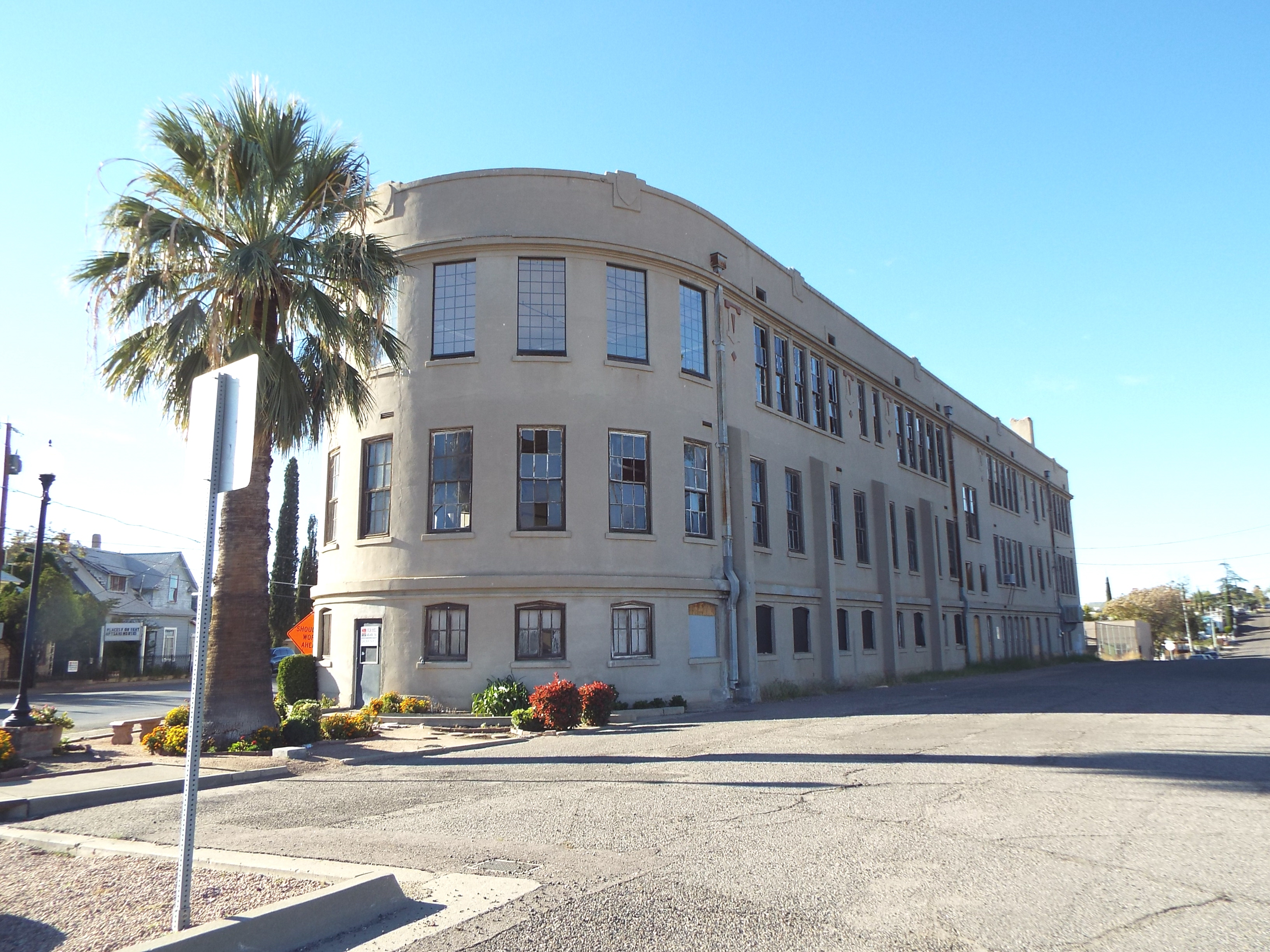 Globe-Hill Street School-450 Hill Street-1913